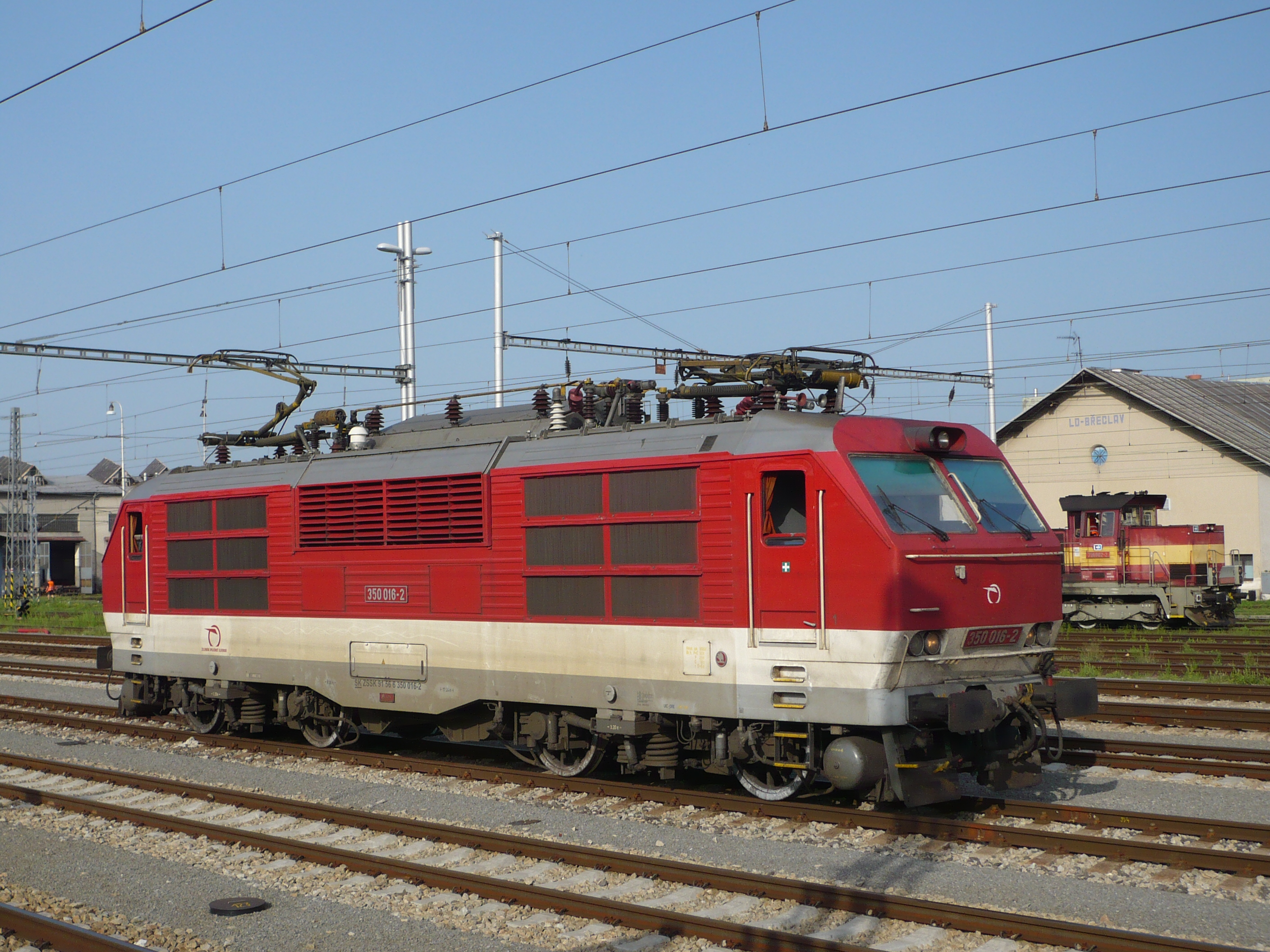 Škoda 350 016-2 in Břeclav